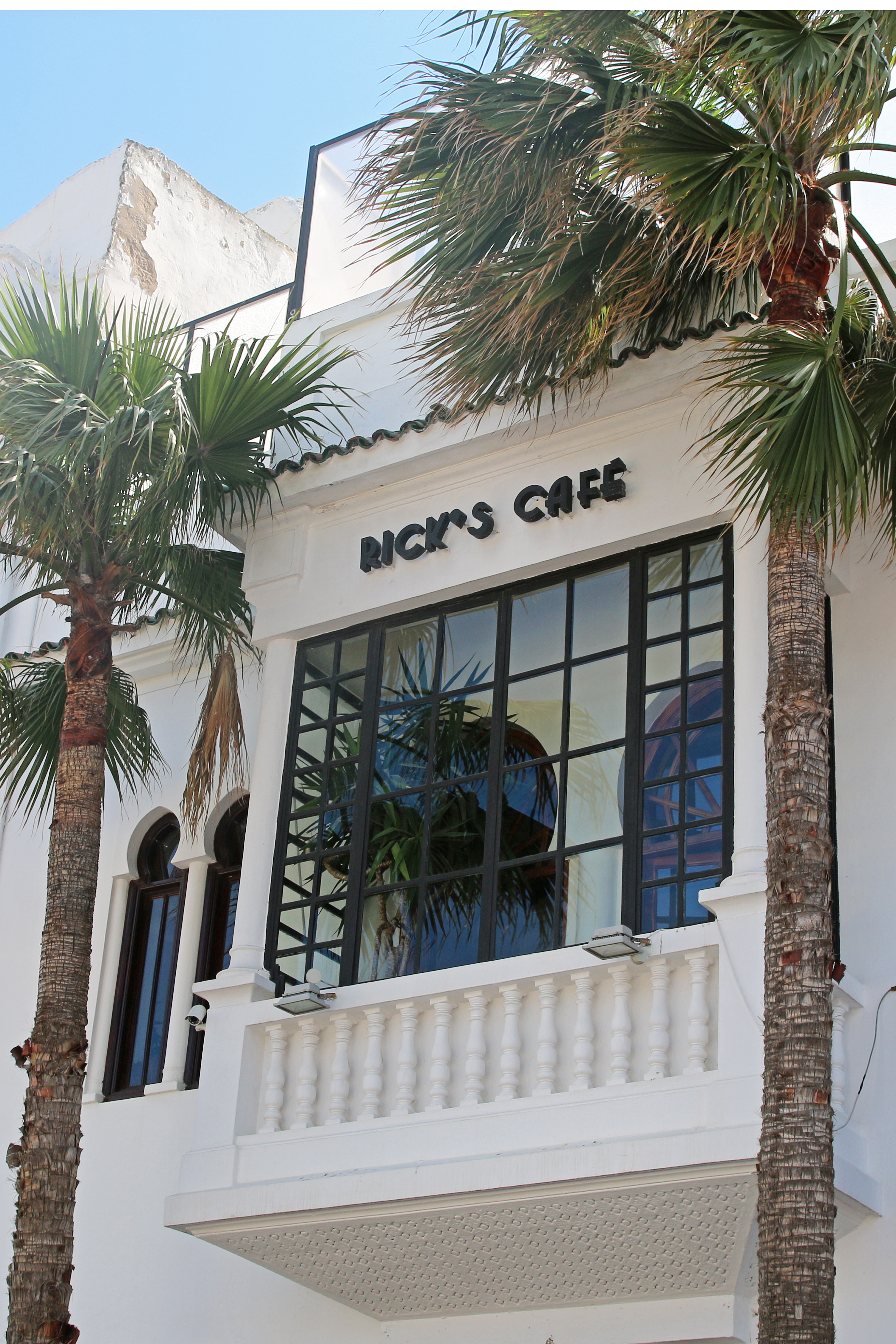 Rick's Café in Casablanca